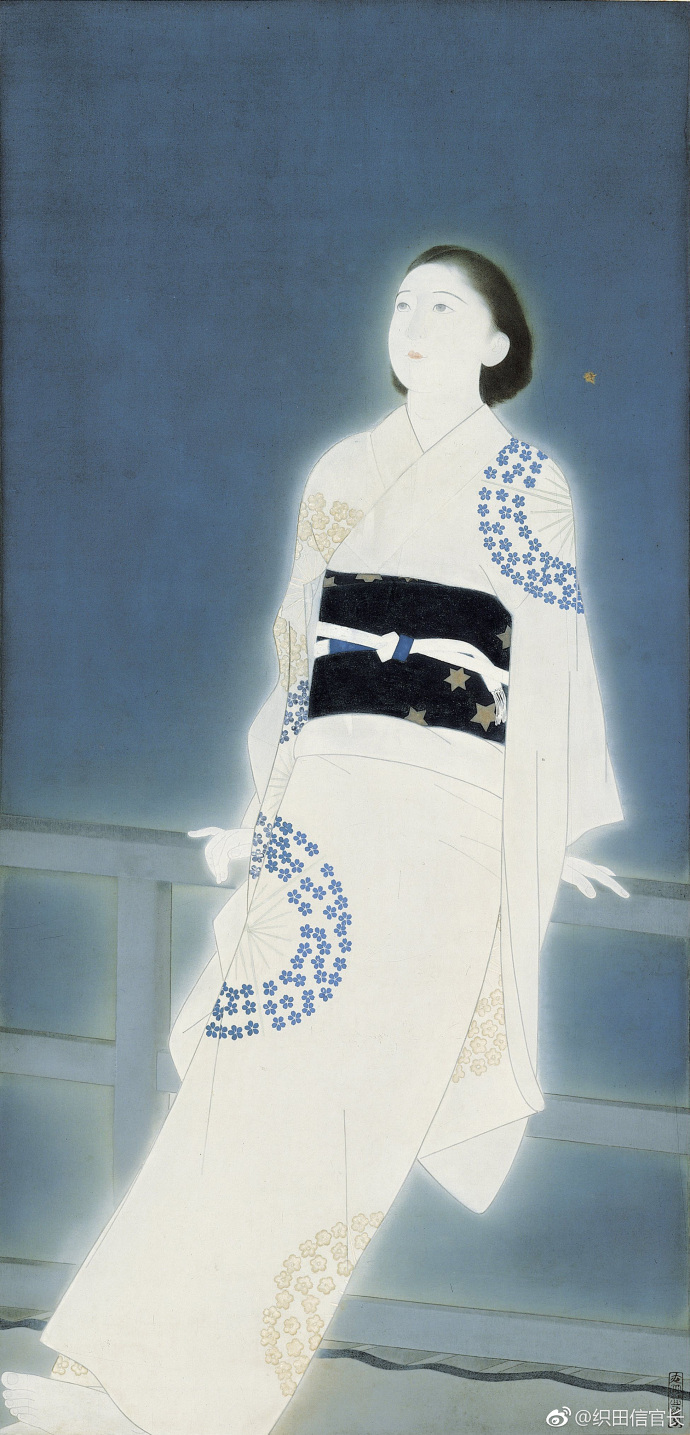 Lady on a bridge at evening, Color painting on silk